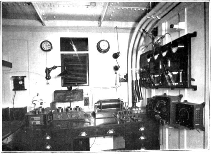 Photograph of "The Operator's Room on a liner, showing the Receiving Apparatus for a 5-kw. Station", which appeared between pages 252 and 253 in the 1913 edition of "The Year Book of Wireless Telegraphy and Telephony". (Appears to be the Olympic)